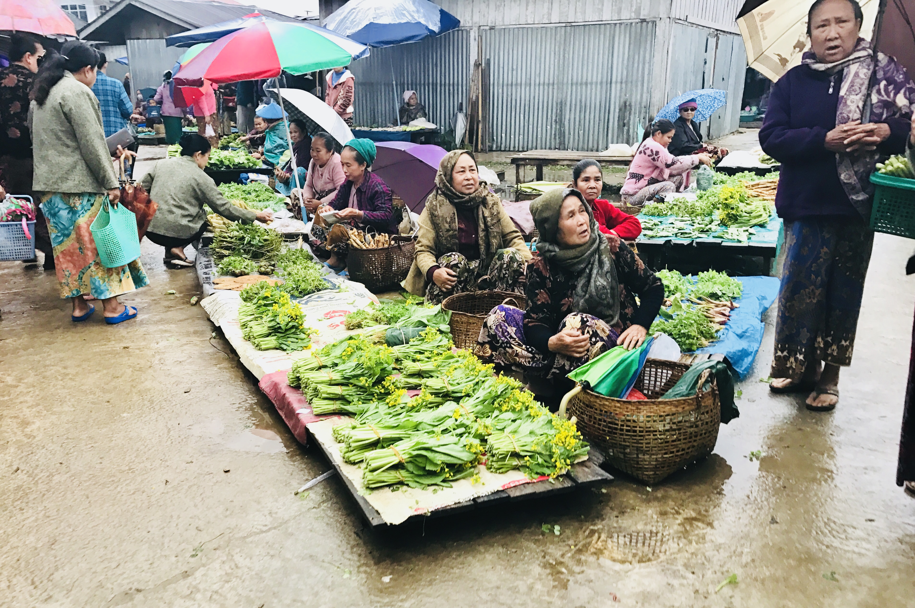 Locally harvested fresh vegetables sold at Mong Yawng Market in early monrning of 2016 December.